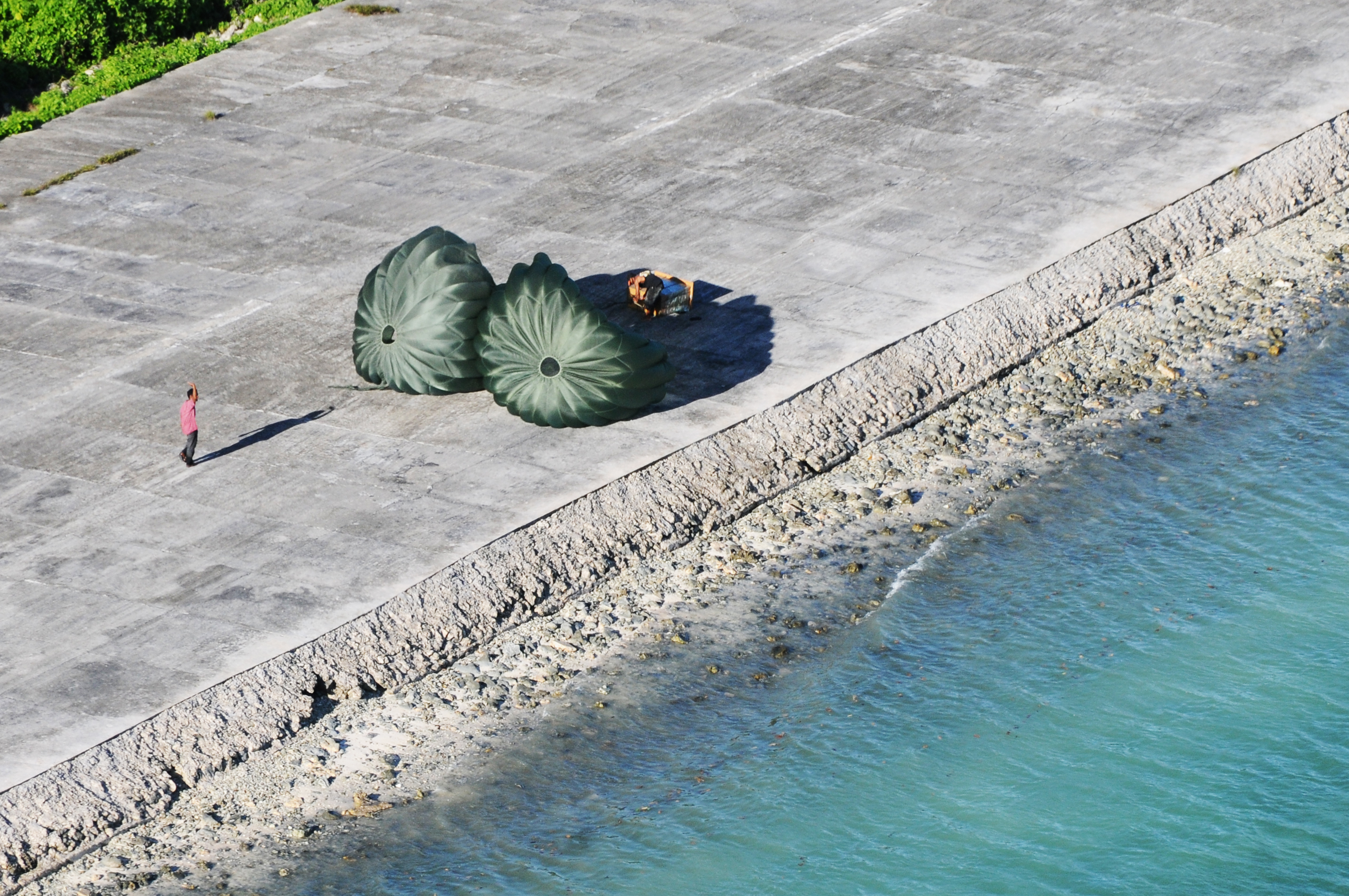 Residents of the Island of Mokil wave to the C-130 crew from Yokota Air Base, Japan after successfully receiving their air dropped humanitarian aid package as part of Operation Christmas Drop Dec. 12, 2012. Each year OCD provides aid to more than 30,000 islanders in Chuuk, Palau, Yap, Marshall Islands and Commonwealth of the Northern Mariana Islands. This year is the 61st anniversary of OCD, making it the longest running humanitarian mission in the world. In total, there are eight planned days of air drops, with 54 islands scheduled to receive humanitarian aid.